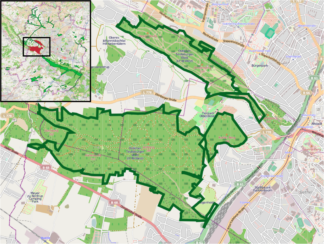 Bielefeld - Nature reserve Östlicher Teutoburger Wald (LP BI-West) - overview mapNumber and borders of nature reserves are subject to frequent change. In order to facilitate reproduction of this map from openstreetmap, the following data is stored here: export boundaries: north: 52.037; west: 8.45; east: 8.53; south: 52.0; mapnik svg, scale 1:30.000 nature reserve boundary stroke weight 10.0; nature reserve stroke color: R 5, G 102, B 36; municipality border stroke weight: as found